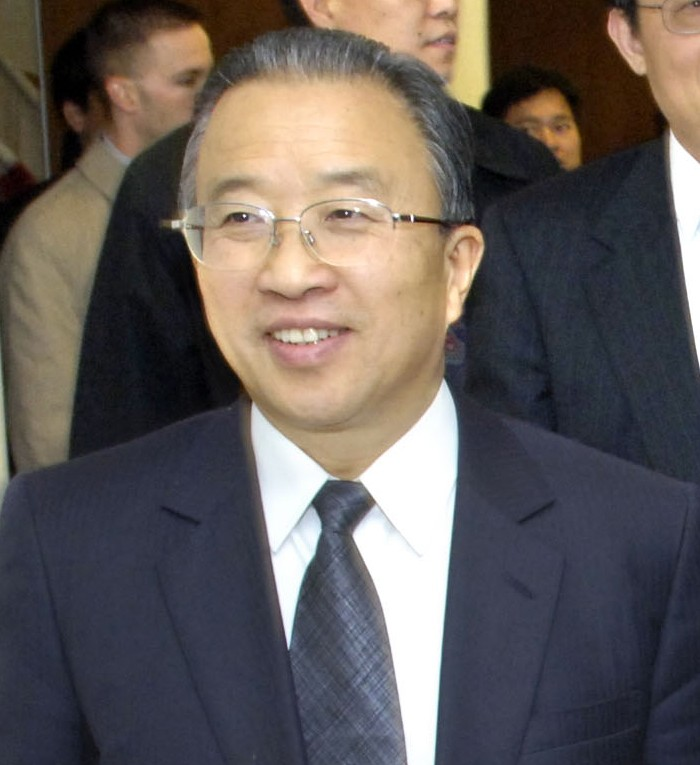 Peoples Republic of China's Vice Minister of Foreign Affairs Dai Bingguo, cropped from photo being escorted by Secretary of Defense Donald H. Rumsfeld to a Pentagon conference room on Dec. 8, 2005. Rumsfeld and Dai are meeting to discuss several bilateral security issues of mutual interest.